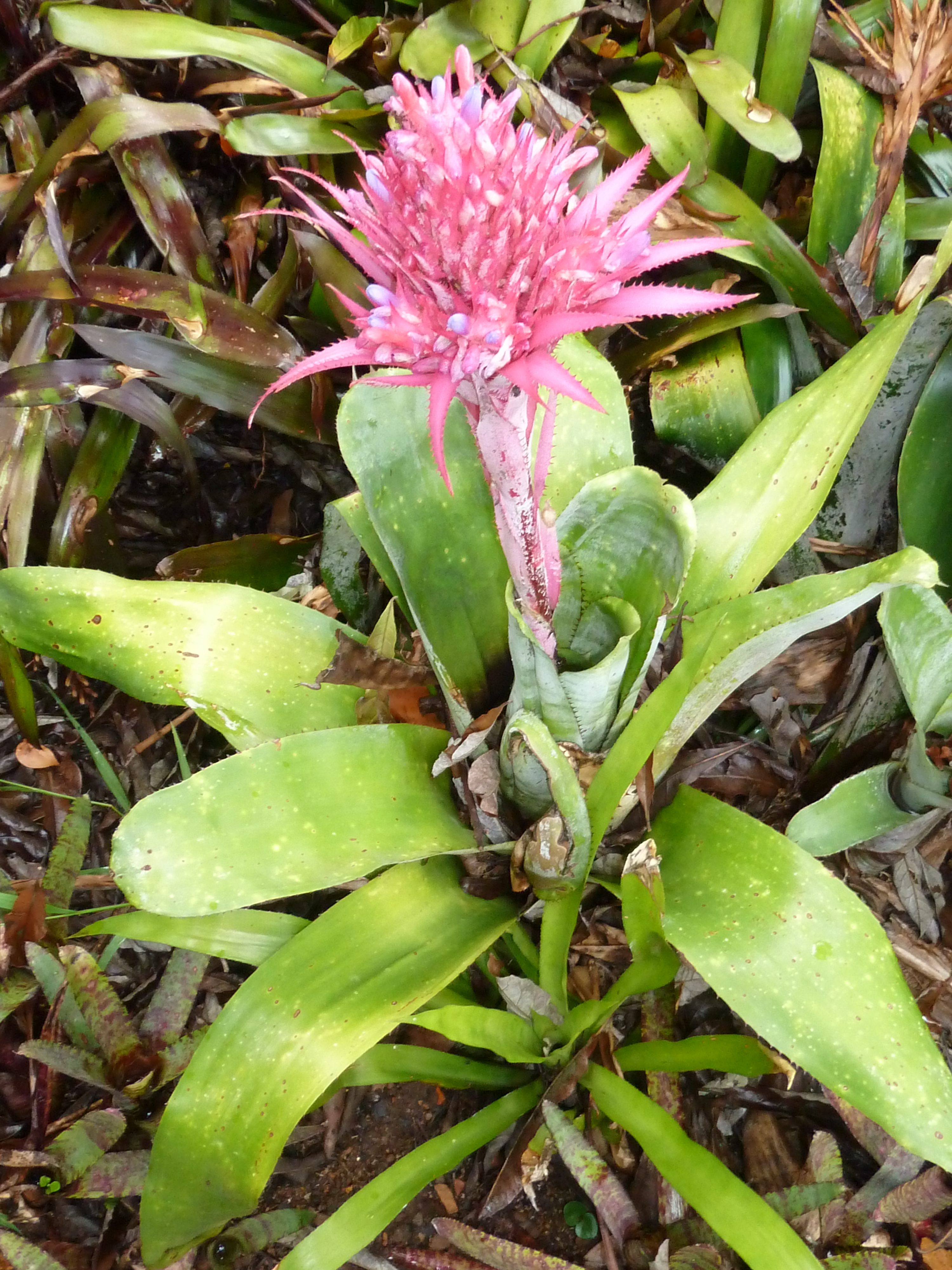 Urn plant in the Manie van der Schijff Botanical Garden, Pretoria